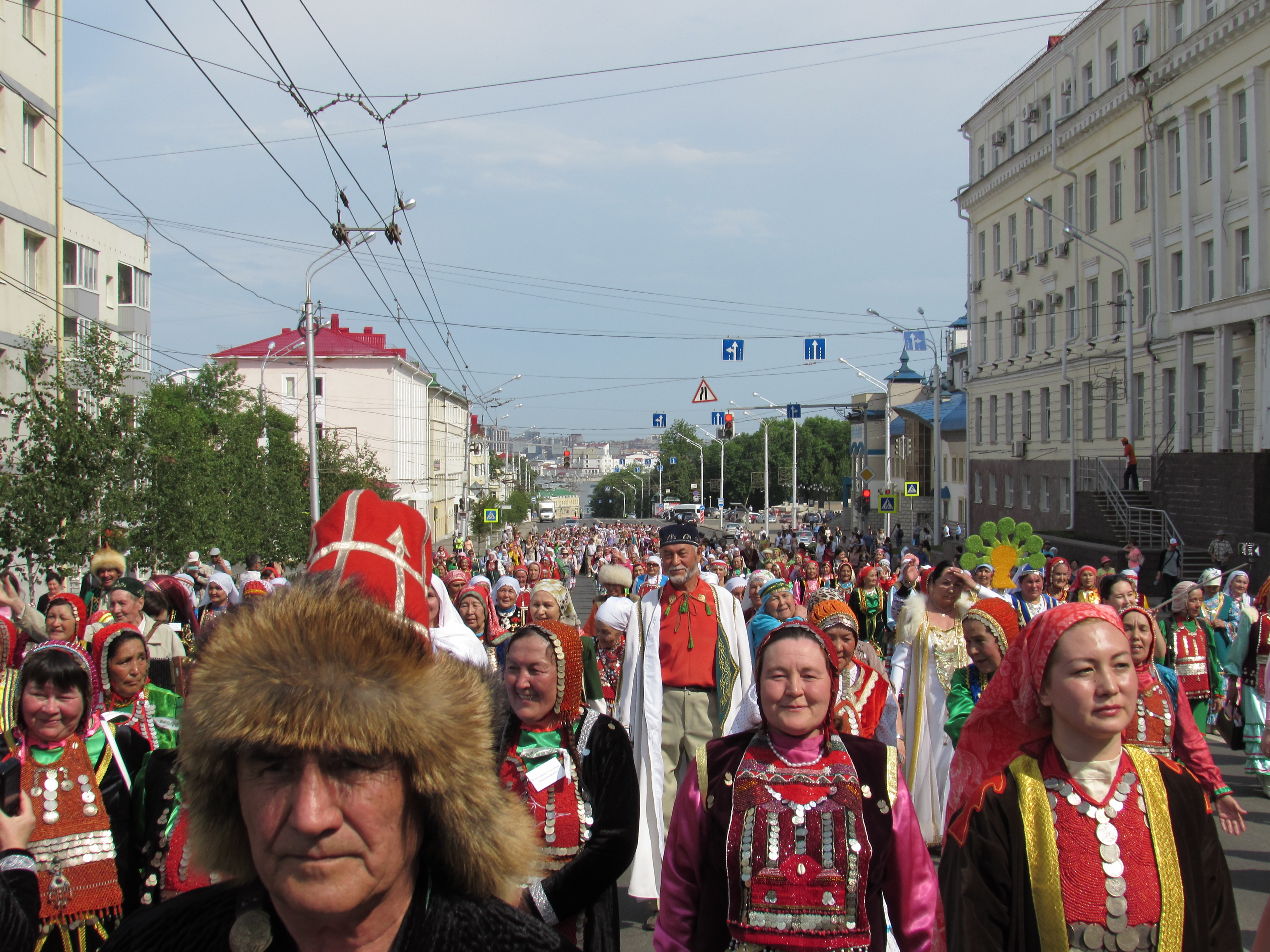 Holiday Bashkir national costume